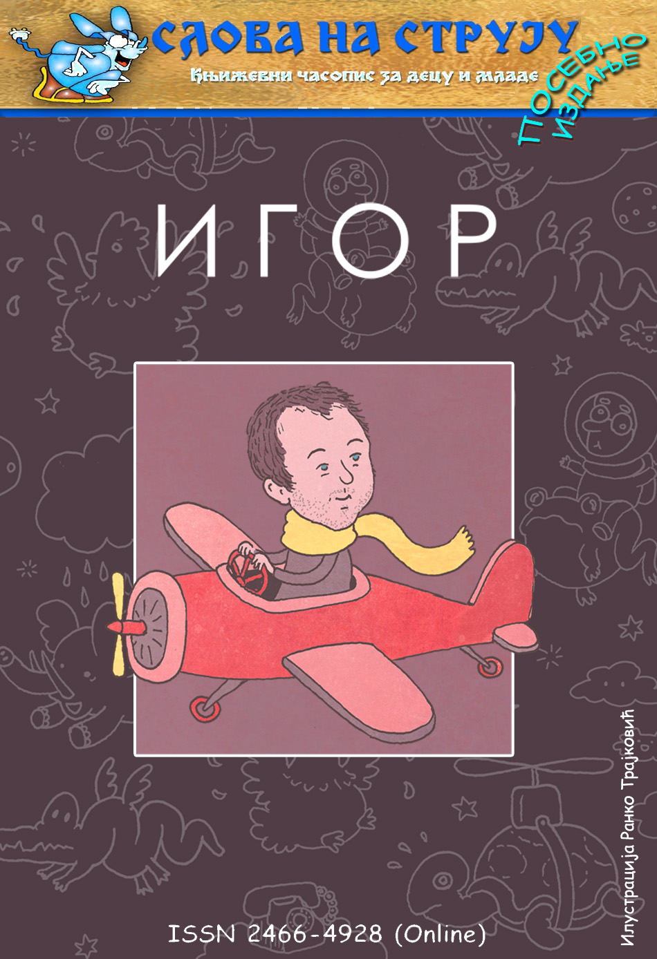 Front page Slova na struju, children magazine, publish by Public Library Radislav Nikčević Jagodina, Serbia, illustrator by Peđa Trajković